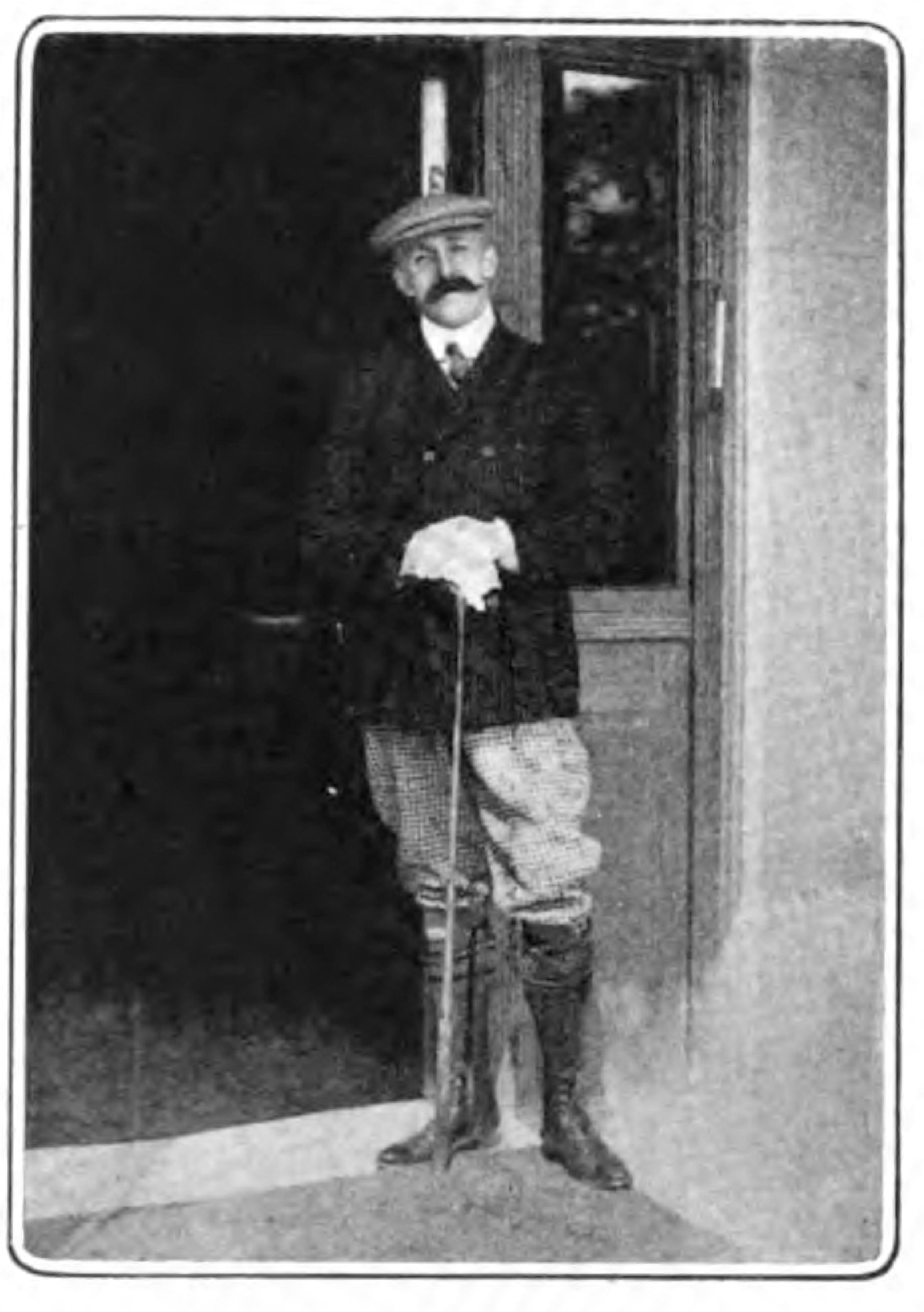 Max Pemberton - "Go"